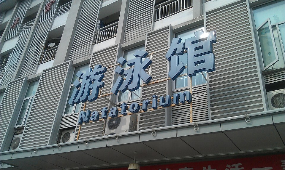 Natatorium of yuncheng